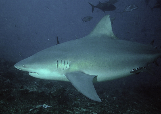 Adult bull (Carcharhinus leucas) at Shark Reef Marine Preserve, Beqa Lagoon, Fiji; May 2007 by Terry Goss. Shot w/Nikon D70S with Nikkor 12-24mm (@24mm). For more please visit my portfolio: (